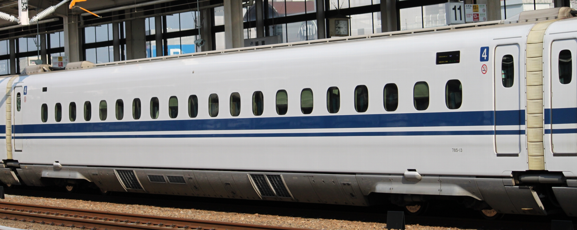 Shinkansen series N700(785-13) in Himeji Station